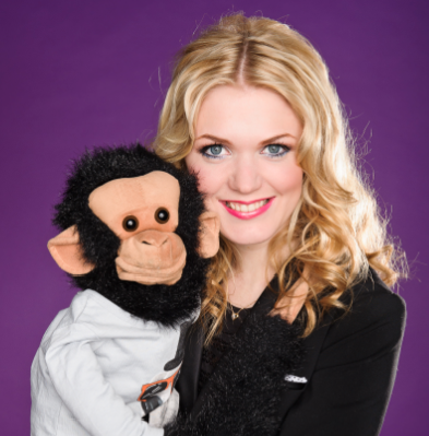 Swedish ventriloquist act Zillah & Totte, photo taken 2012 by Malin Sydne.